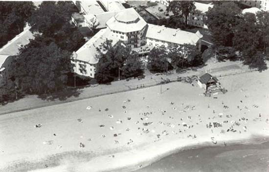 Aerial view of Hotel Breakers with the rotunda at the center. National Historic Landmarks photograph.